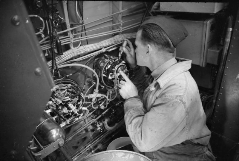 An electrical fitter making adjustments to "George", the automatic pilot on a Handley Page Halifax at RAF Pocklington, Yorkshire.